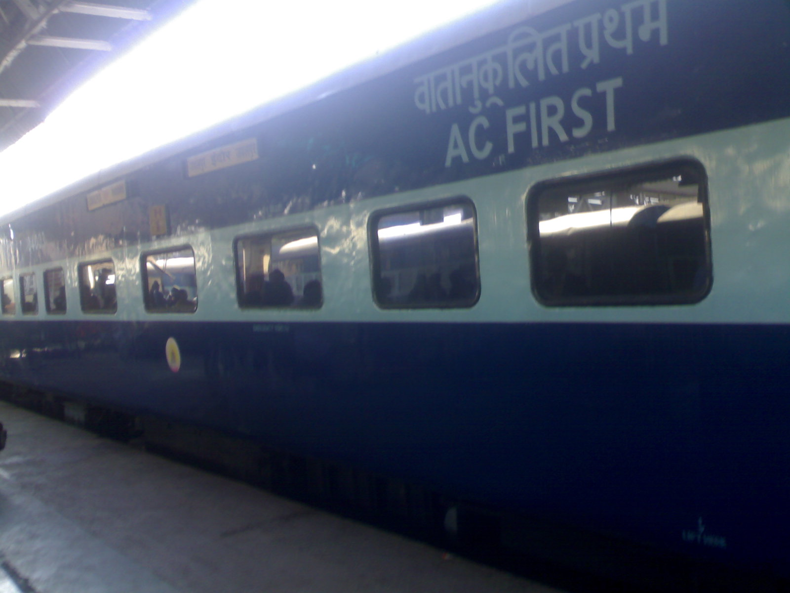 AC Coach of Indore - Jabalpur Express